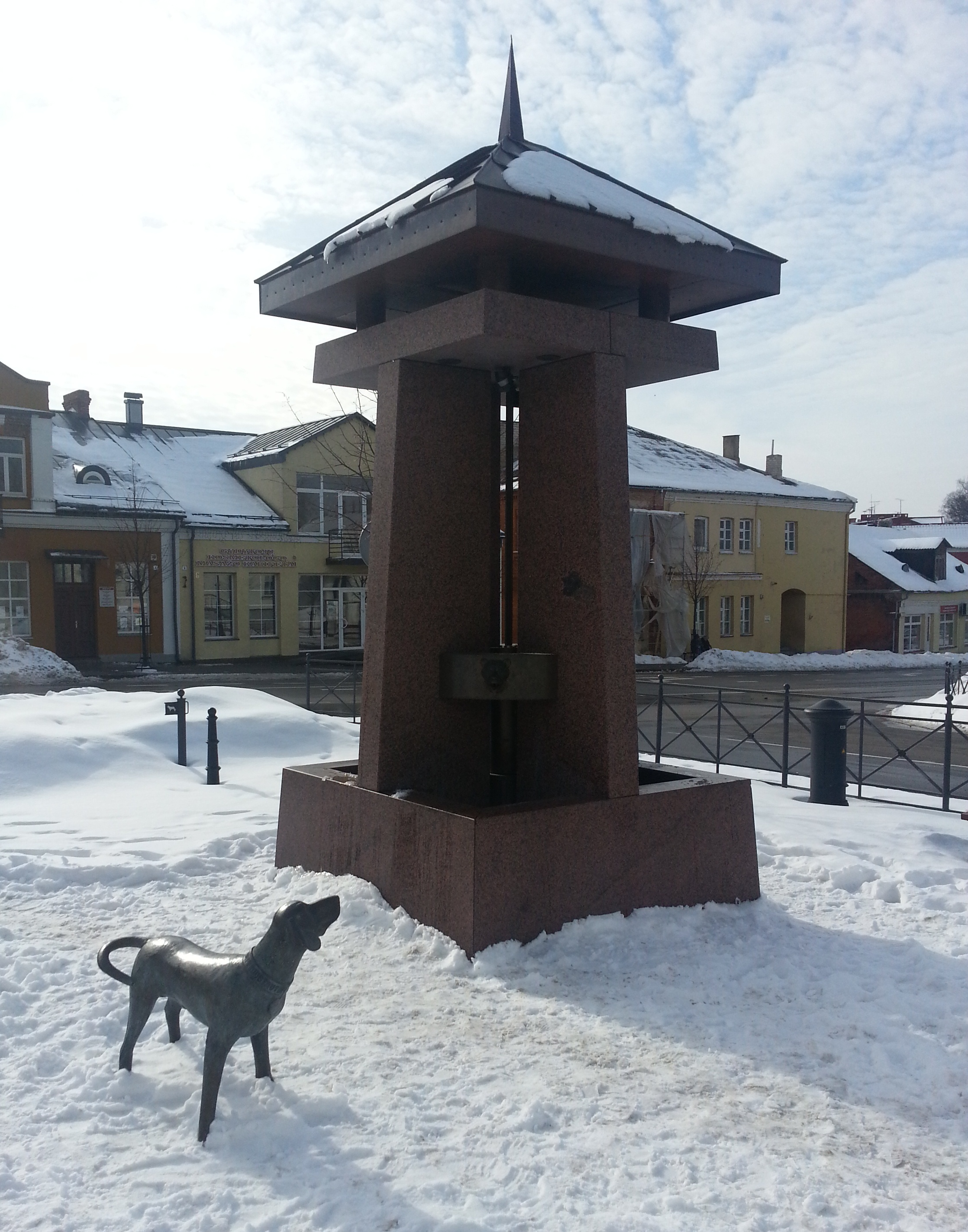 Sculpture "Lithuanian Hound" (architect Algirdas Žebrauskas, sculptor Osvaldas Neniškis) and sculpture "Water well of City Hall" (architect Algirdas Žebrauskas) in the centre of TelšiaiLietuvių: Skulptūra "Lietuvių skalikas" (architektas Algirdas Žebrauskas, skulptorius Osvaldas Neniškis) ir skulptūra "Rotušės šulinys" (architectas Algirdas Žebrauskas) Telšių centreŽemaitėška: Skolptūra "Lietoviū skalėks" (arkitekts Algirdas Žebrauskas, skolptuorios Osvaldas Neniškis) ė skolptūra "Ruotošės šulinīs) (arkitekts Algirdas Žebrauskas) Telšiū cėntrė